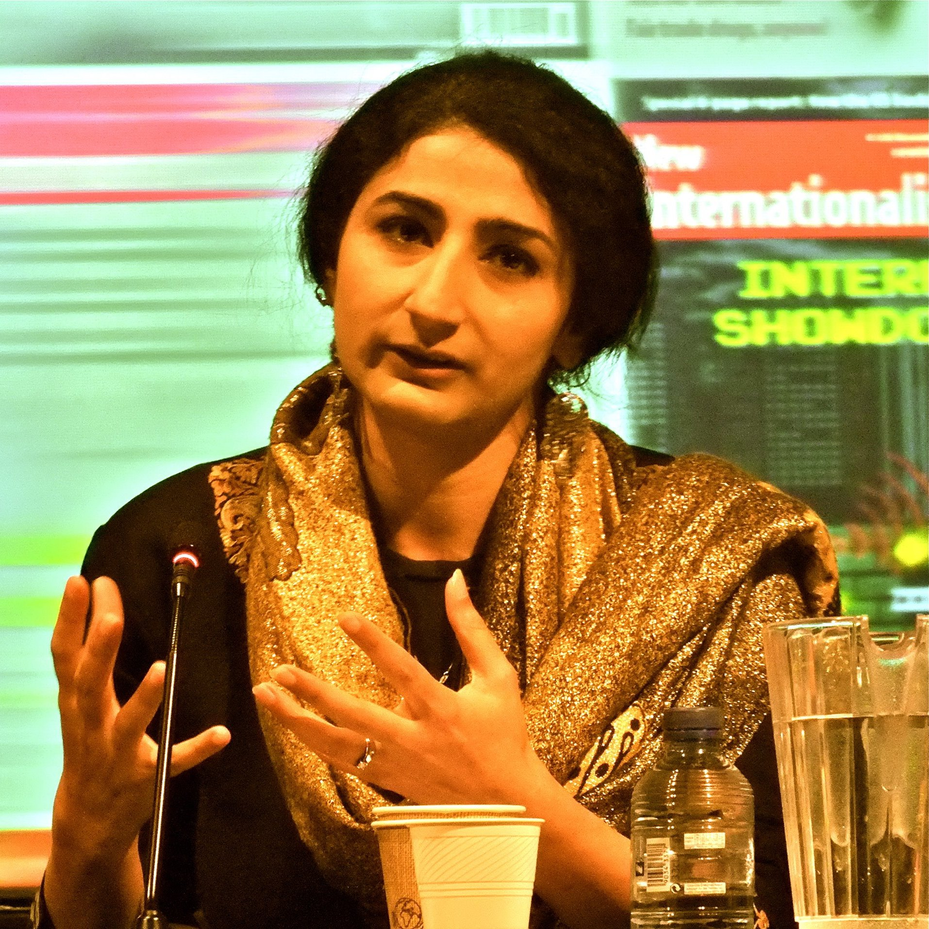 Nitasha Kaul speaking at the New Internationalist's 40th Anniversary